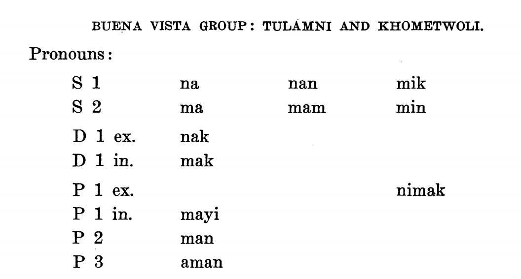 Pronouns of Buena Vista Yokuts language from THE YOKUTS LANGUAGE OF SOUTH CENTRAL CALIFORNIA.